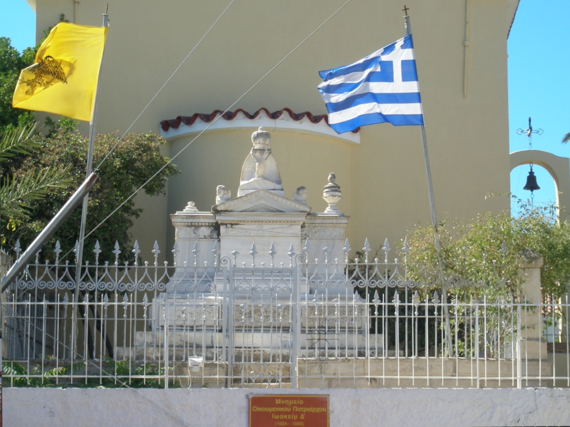 Tomb of Patriarch Joachim IV of Constantinople at Chios island